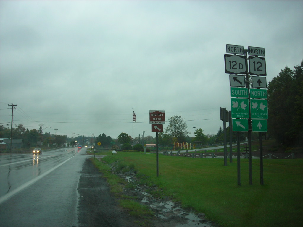 NY 12 at an intersection with NY 12D and the Black River Trail.